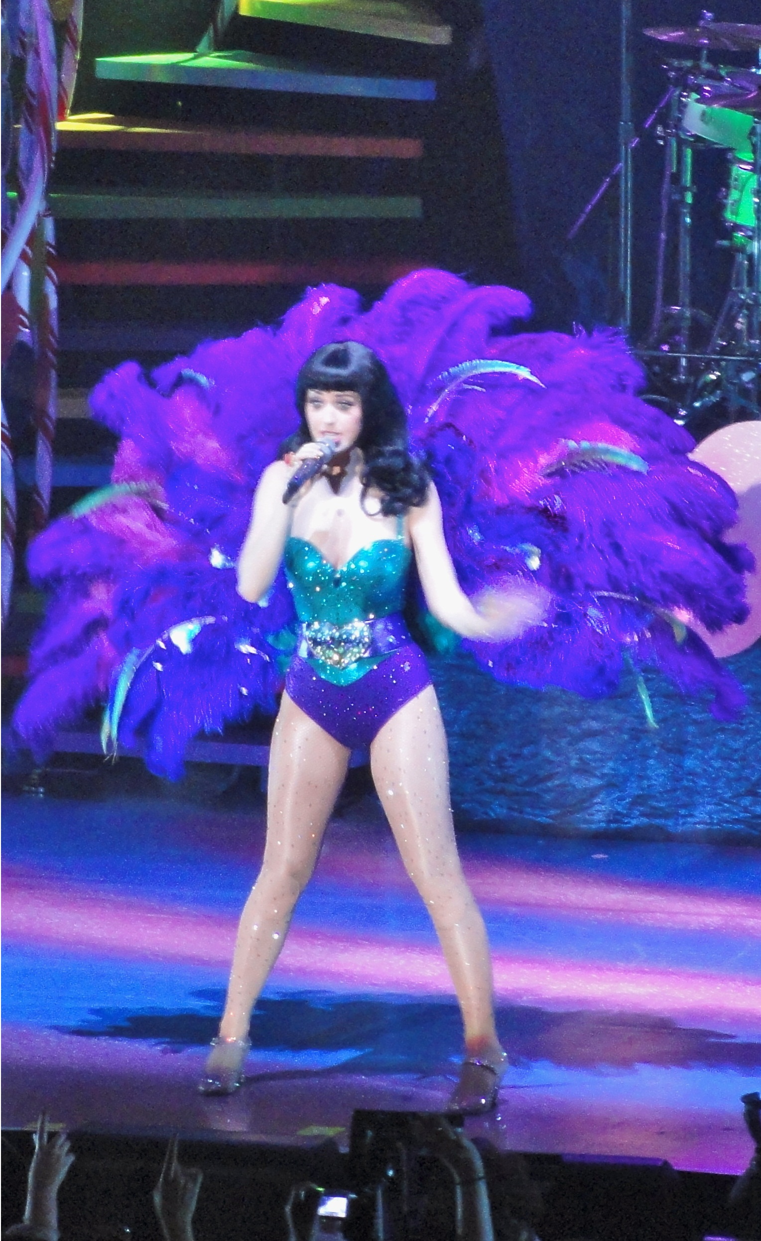 Katy Perry performing "Peacock" in California Dreams Tour. March 31st, 2011, Bournemouth, England.